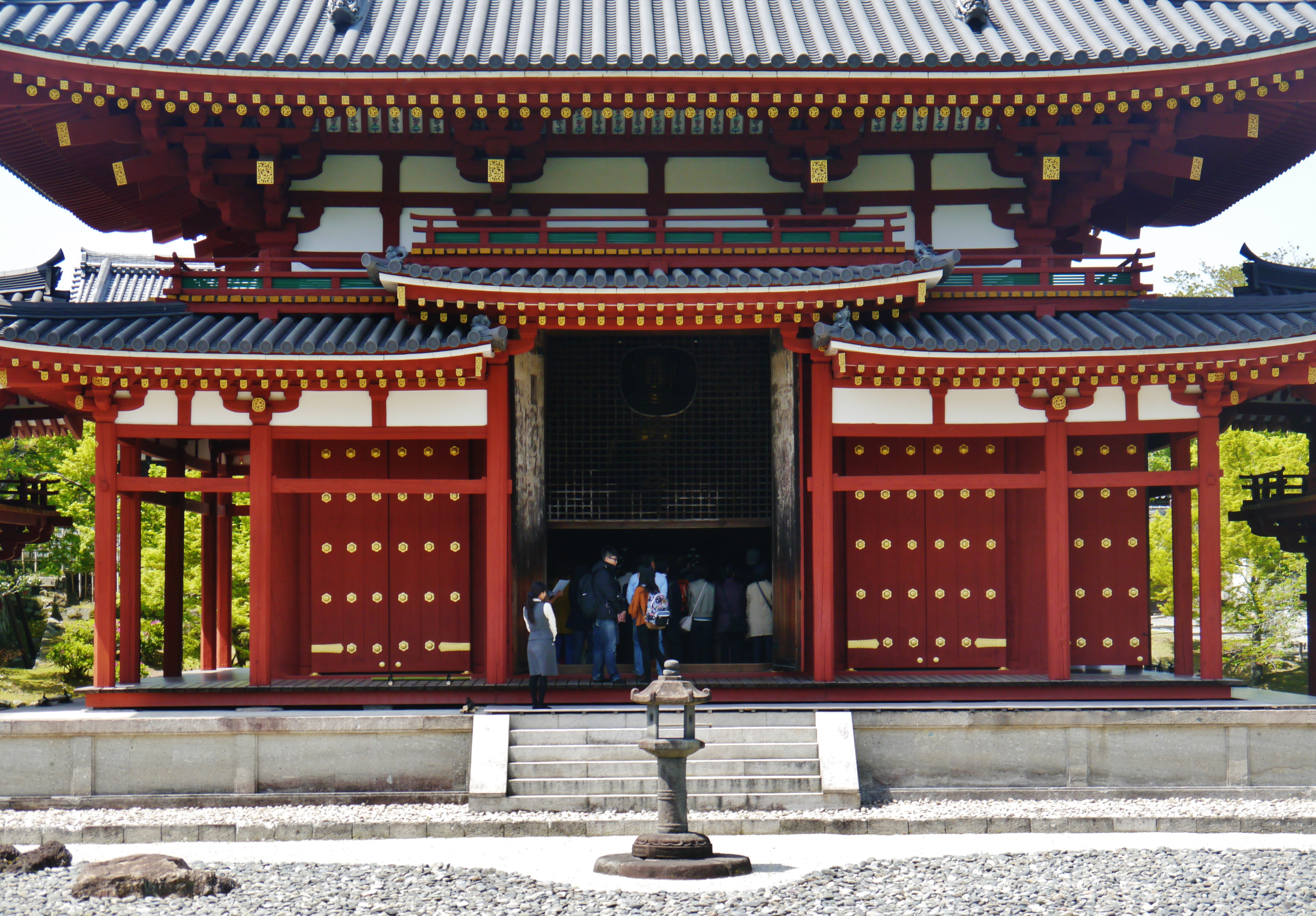 Phoenix Hall of the Byodo Temple, Uji, Kyoto Prefecture, Kinki Region, Japan